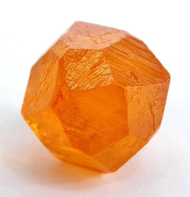 Spessartine Locality: Nani, Loliondo, Arusha Region, Tanzania (Locality at ) 1.3 cm across. A killer thumbnail: super-equant, razor-sharp, and among the most gemmy in the lot at this size range! This one is on the pure mandarin orange end of the red-orange spectrum of color here. In person it is totally transparent! This is just hard to convey in a photo, given the gemminess and color saturation, and still show all the sharp faces.